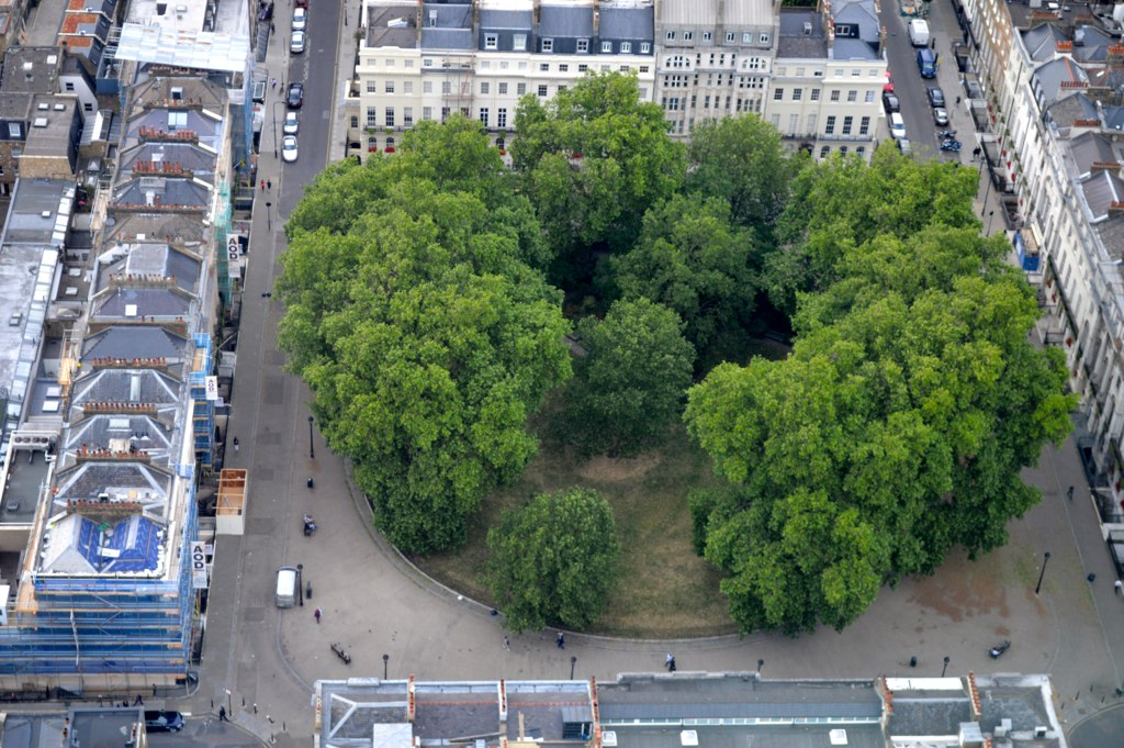 An aerial view of Fitzroy Square in London